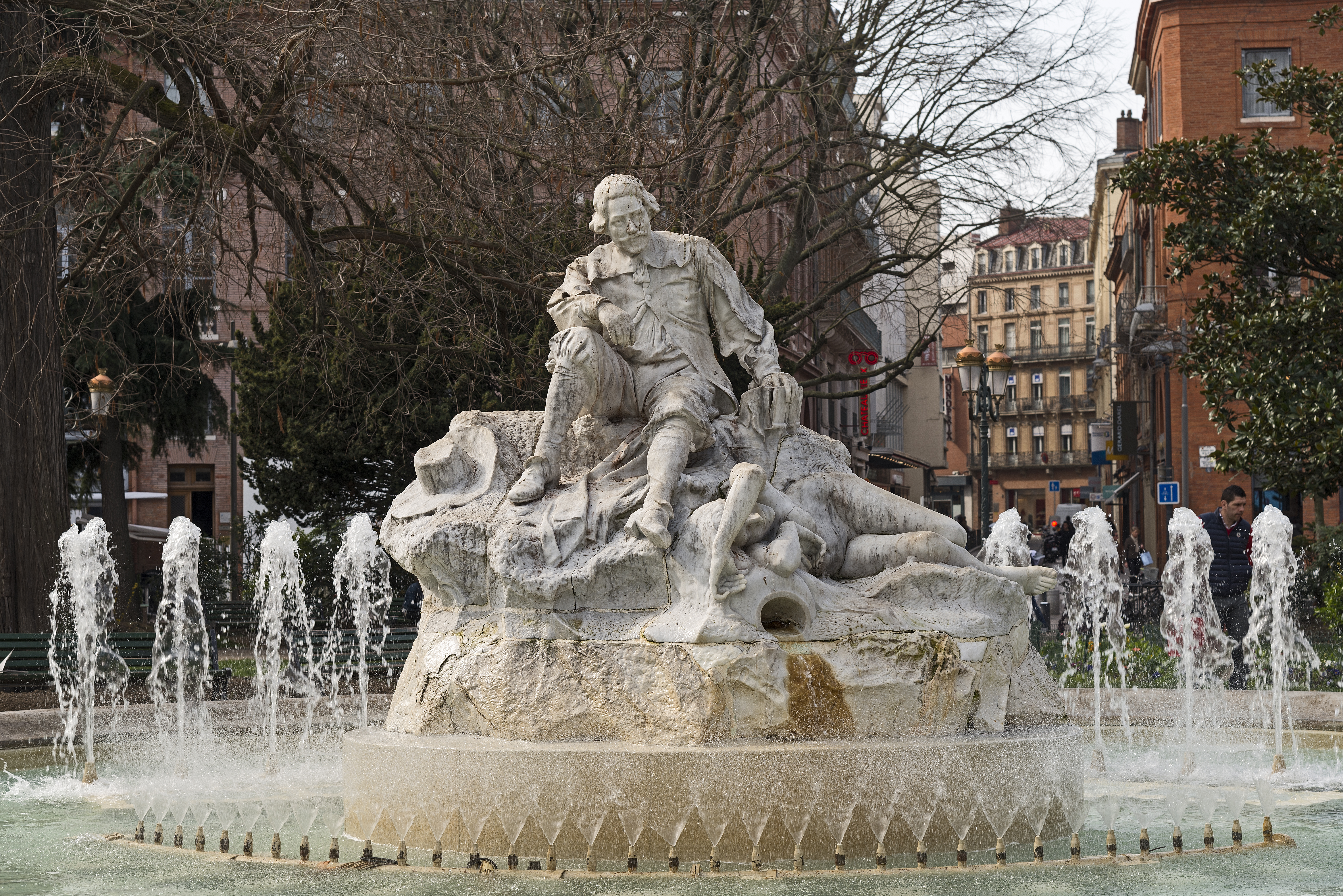 Fontaine, Pierre Goudouli by Alexandre Falguière. Place Wilson in Toulouse.